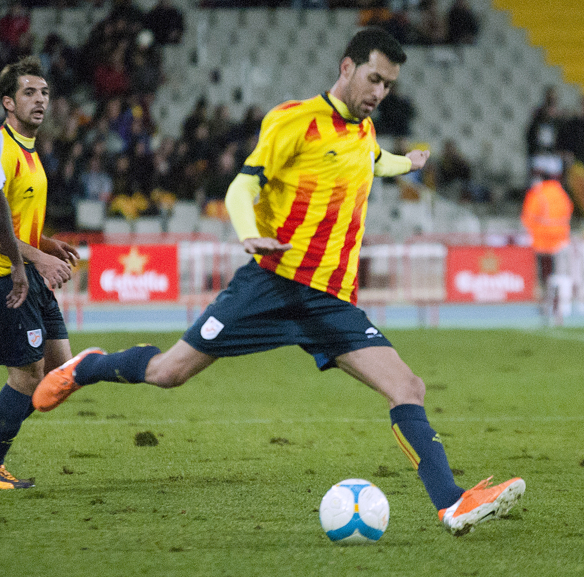 Spanish football player Sergio Busquets Burgos during friendly match Catalonia vs. Cape Verde